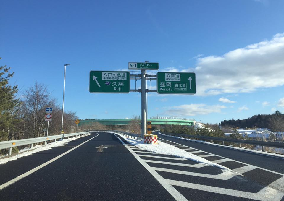 Hachinohe Junction as seen from the north